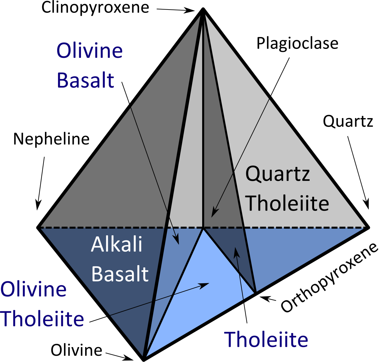 Basalt Tetrahedron